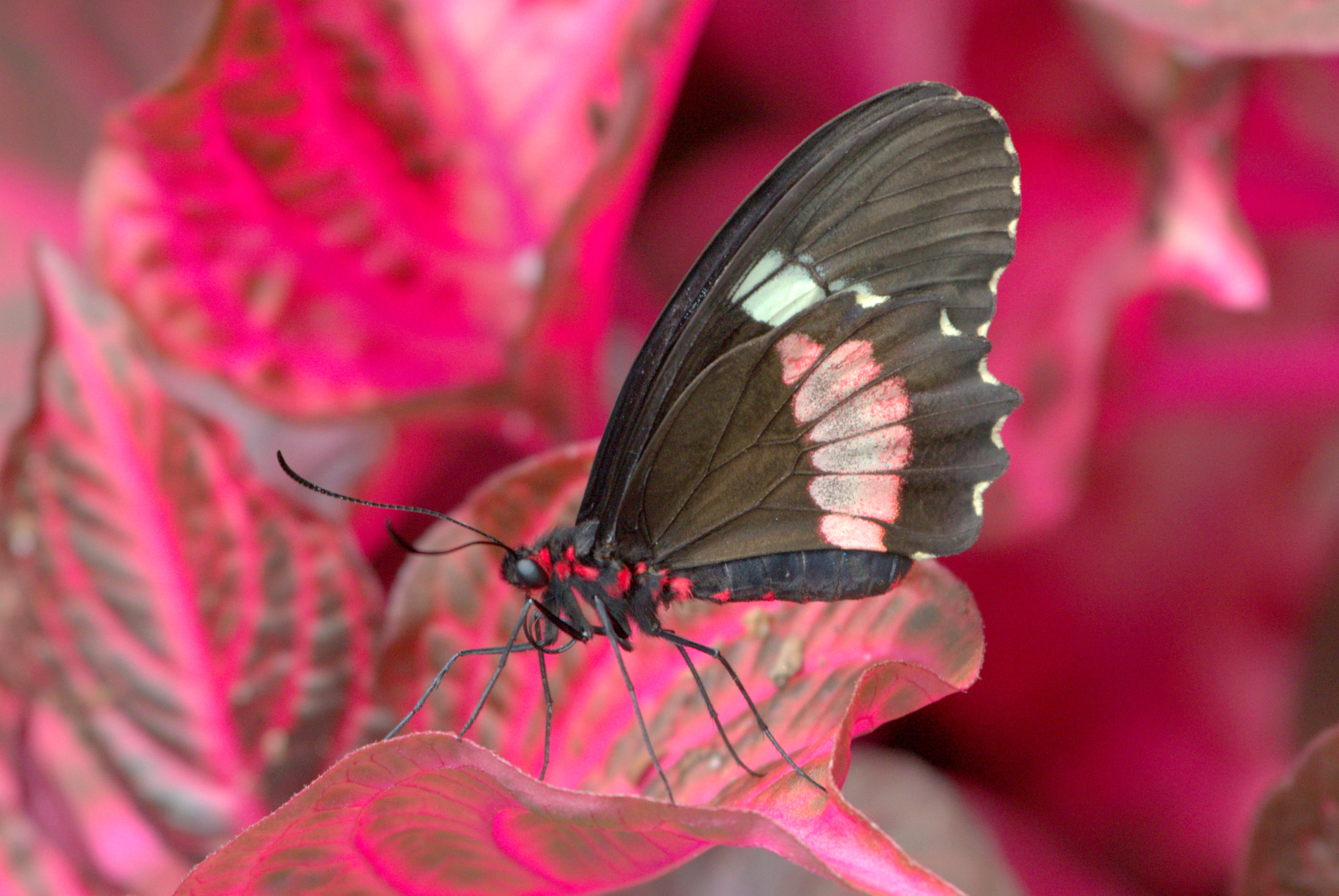 Arcas Cattleheart - taken at Krohn Conservatory, Cincinnati, OH.